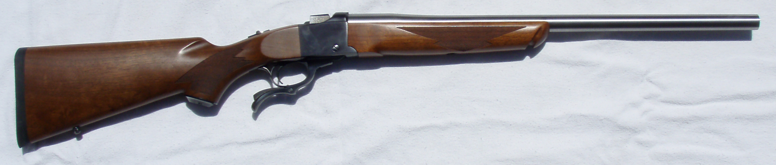 Ruger No. 1 single-shot rifle in .243 with custom barrel